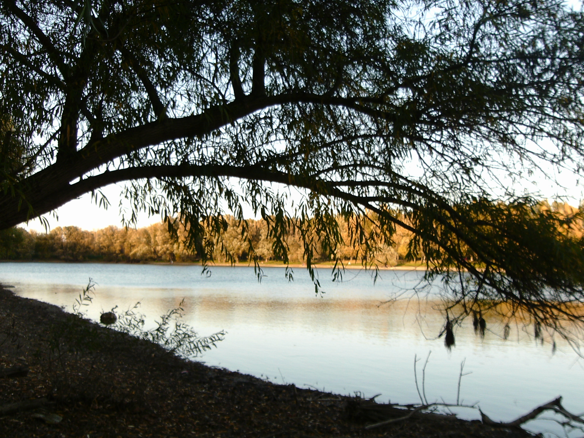 Szalki-sziget, Dunaujvaros, Hungary